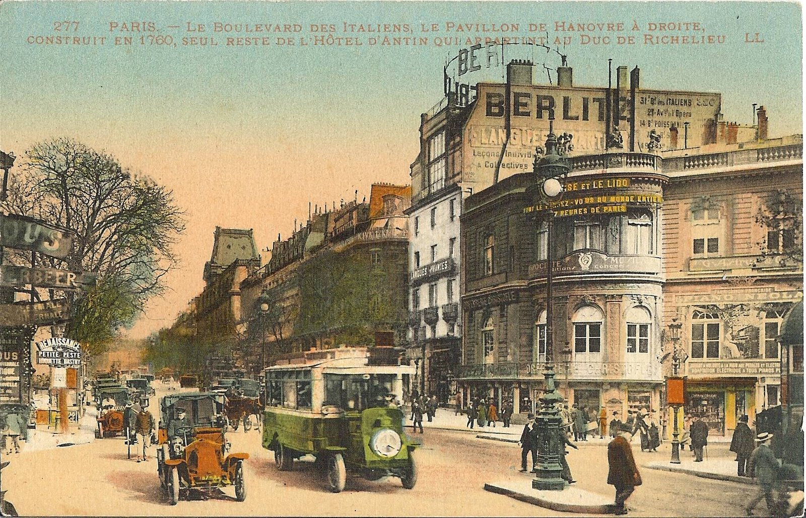 The Pavillon du Hanovre in its original place, on the Boulevard des Italiens, Paris